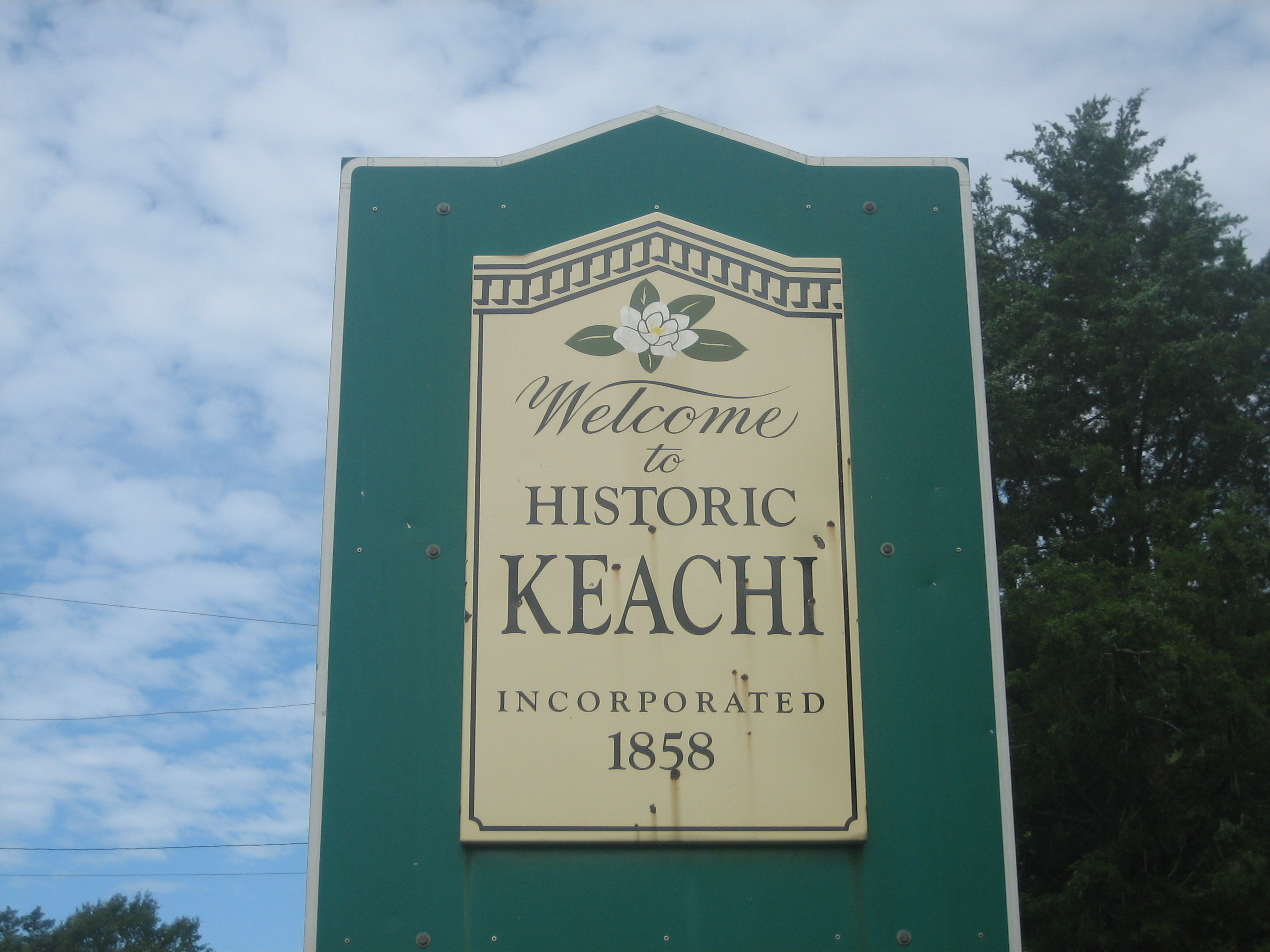 I took photo on May 27, 2009.Billy Hathorn (talk) 14:52, 31 May 2009 (UTC)